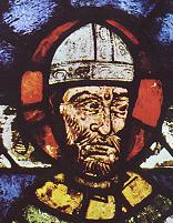 Thomas Becket (from a window of Canterbury cathedral) This is in fact not a medieval representation of Thomas Becket but a fabrication by Samuel Caldwell Jr, dating from 1919. It is part of window nVII in the Trinity Chapel Ambulatory of Canterbury Cathedral, most, if not all of which, dates to 1949, designed in a convincingly medieval style by Calwell Jr. The panel is made up from some fragments of medieval glass and much modern glass painted and acid-etched to look ancient. While the head is a medieval piece dating to the late 12th or early 13th century, its provenance is unclear and it is highly unlikely that it shows Thomas Becket. Caldwell Jr was Canterbury Cathedral's stained glass restorer during the first half of the 20th century. He had at his disposal a large number of fragments of medieval glass, and he used those in several places (e.g. the North Oculus window in the northern transept of Canterbury Cathedral) to fill gaps in the medieval windows, or - as in the panel above - to fabricate convincing fakes. Source: Caviness, M. The Windows of Christ Church Cathedral Canterbury, London 1981, p175